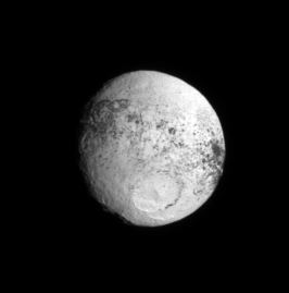 Following Cassini's highly successful flyby of Iapetus in September 2007, the spacecraft repeatedly glanced back at the two-toned moon for some time. As Cassini receded from Iapetus, more and more of the bright trailing hemisphere rotated into view. This image shows terrain farther west of that visible in PIA08384. Most notably in this view, it can be seen that the dark equatorial terrain reaches onto the moon's trailing side by the same amount on the western and eastern sides. This view looks toward Iapetus (1,468 kilometers, or 912 miles, across) from about 10 degrees south of the moon's equator and is centered on 284 degrees west longitude. North is up and rotated 16 degrees to the right. The image was taken in visible light with the Cassini spacecraft narrow-angle camera on Sept. 19, 2007. The view was acquired at a distance of approximately 1.7 million kilometers (1 million miles) from Iapetus and at a sun-Iapetus-spacecraft, or phase, angle of 32 degrees. Image scale is 10 kilometers (6 miles) per pixel. The Cassini-Huygens mission is a cooperative project of NASA, the European Space Agency and the Italian Space Agency. The Jet Propulsion Laboratory, a division of the California Institute of Technology in Pasadena, manages the mission for NASA's Science Mission Directorate, Washington, D.C. The Cassini orbiter and its two onboard cameras were designed, developed and assembled at JPL. The imaging operations center is based at the Space Science Institute in Boulder, Colo.